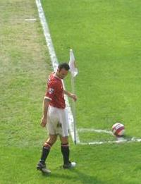 Ryan Giggs taking a corner vs Blackburn